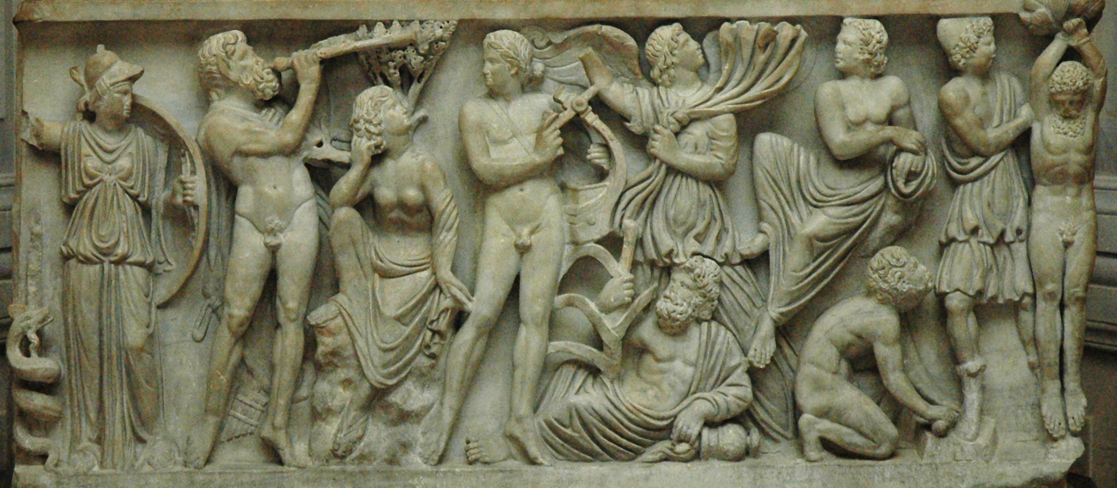 Apollo and Marsyas, panel of a sarcophagus, ca. 290–300 AD. Found in 1853 on the Chiarone river banks (Tuscany, Italy), on the former Emilia-Aurelia road.